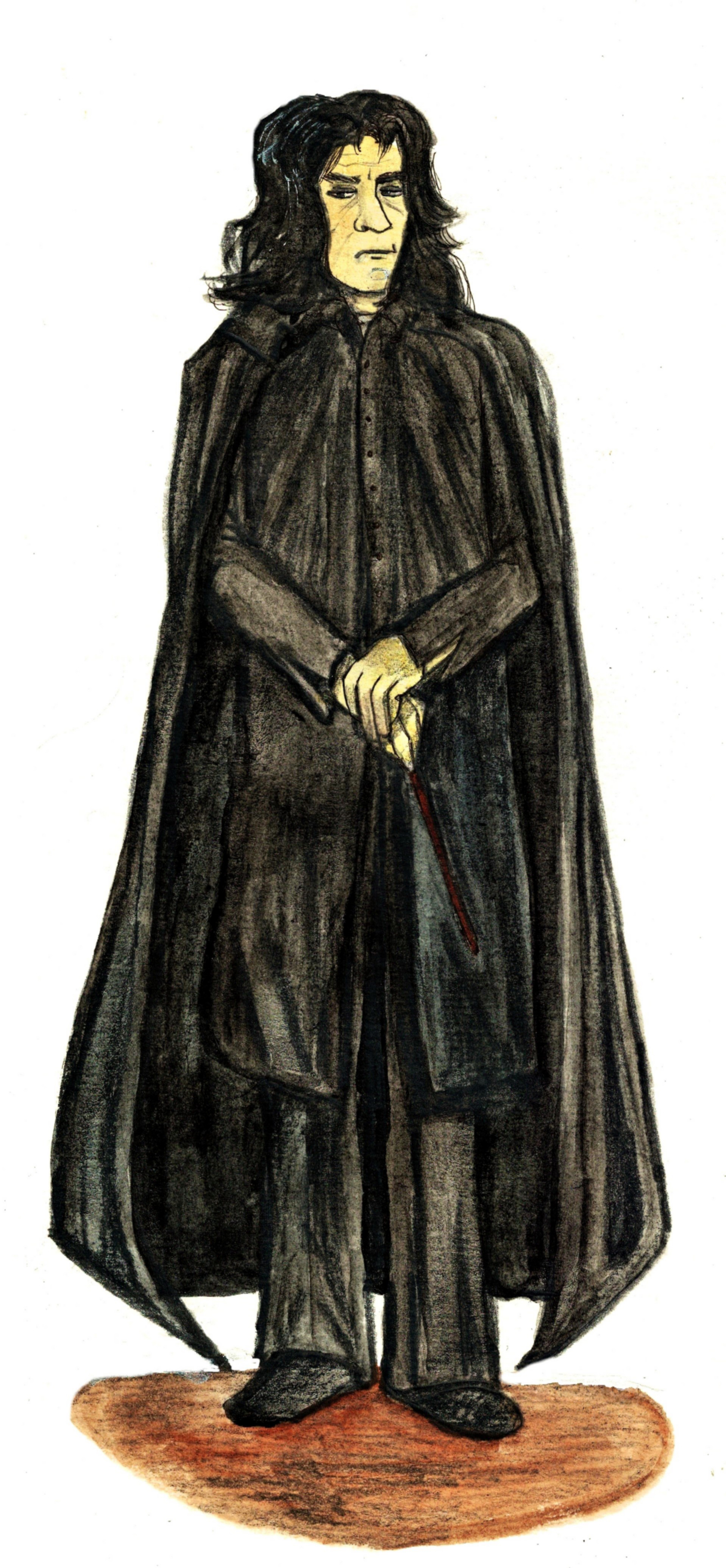 Fan art representing the character Severus Snape from the Harry Potter saga, made with charcoal and watercolours by Mademoiselle Ortie aka Elodie Tihange This drawing is not affected by any copyright infringement. See the discussion that previously decided on its conservation.